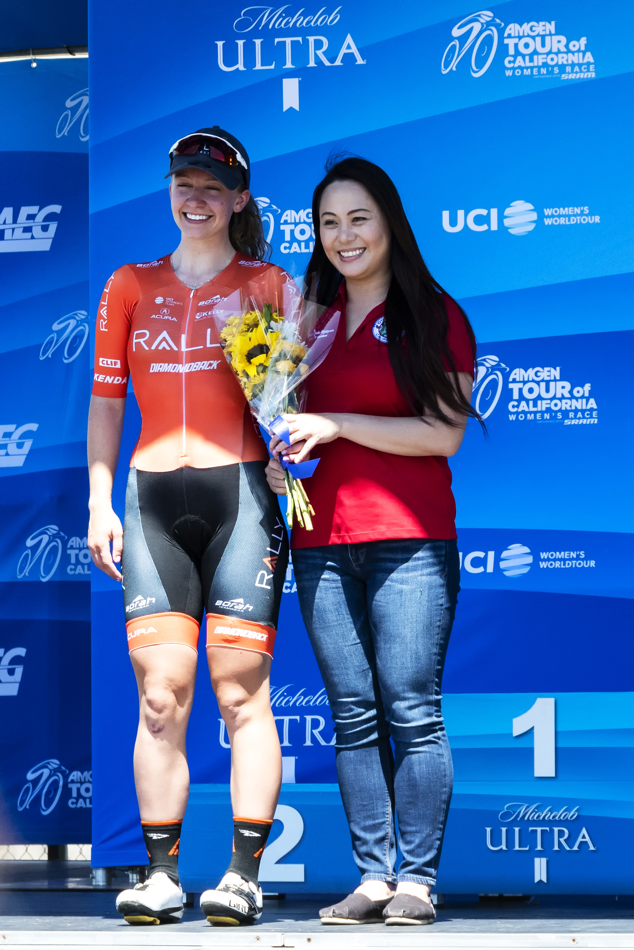 Amgen Women's Tour of California 2018